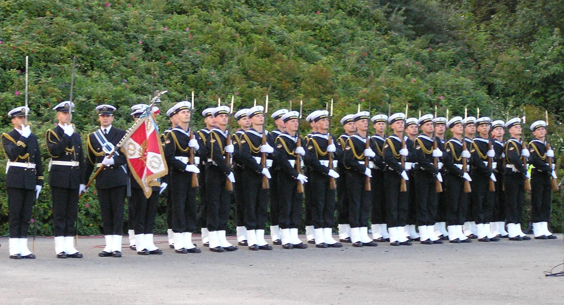 Honor Company of the Polish Navy.